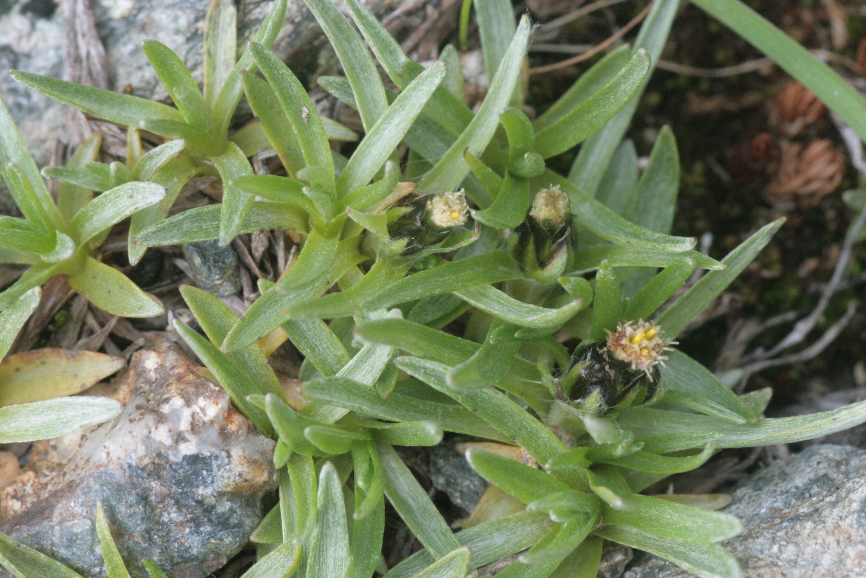 Gnaphalium supinum